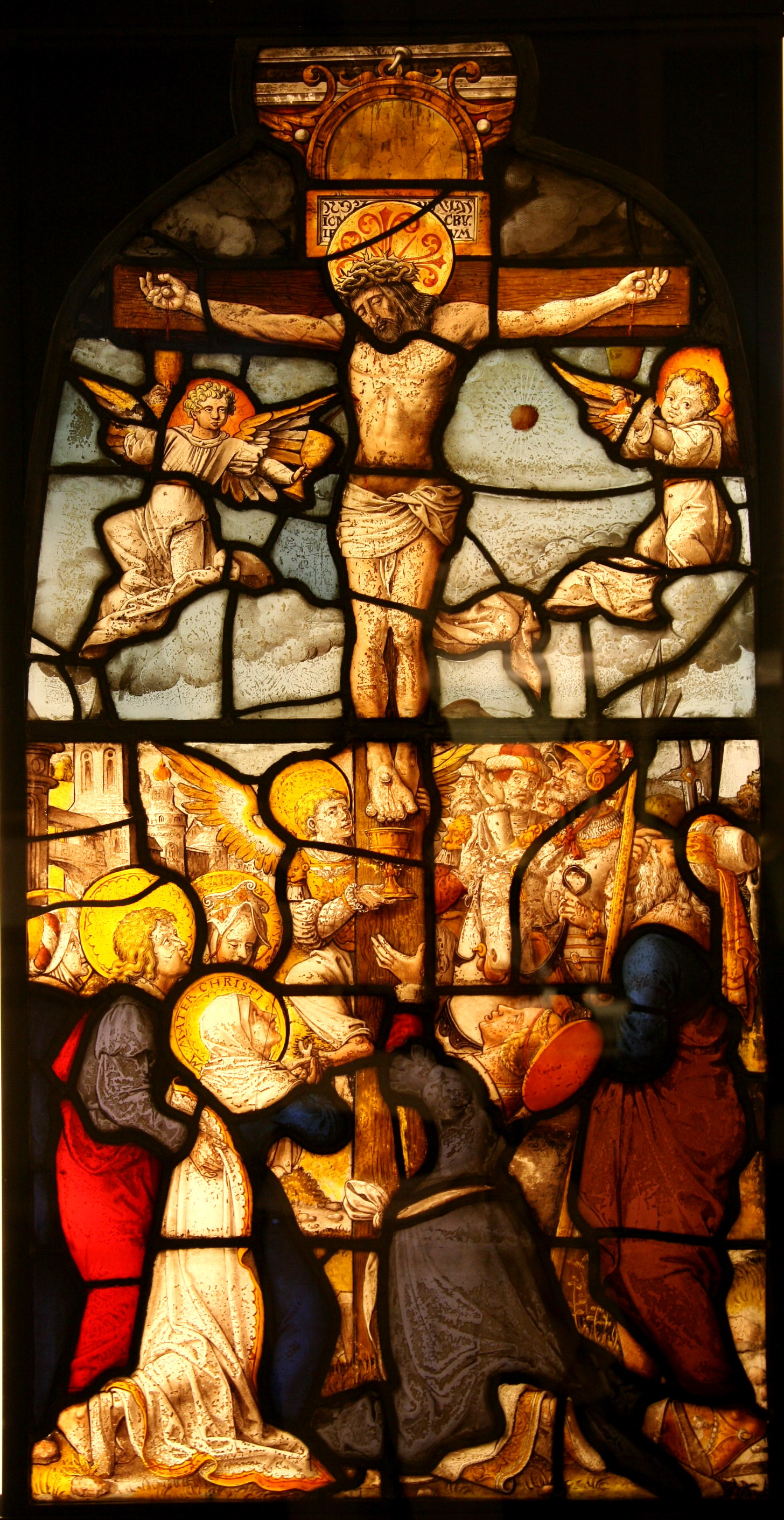 Exhibited at the room 27 (Northern Renaissance 1500-1700, case EXP), Victoria and Albert Museum, London, England. It was originally in the cloisters of Steinfeld Abbey, near Cologne. German (Cologne), about 1540-1542